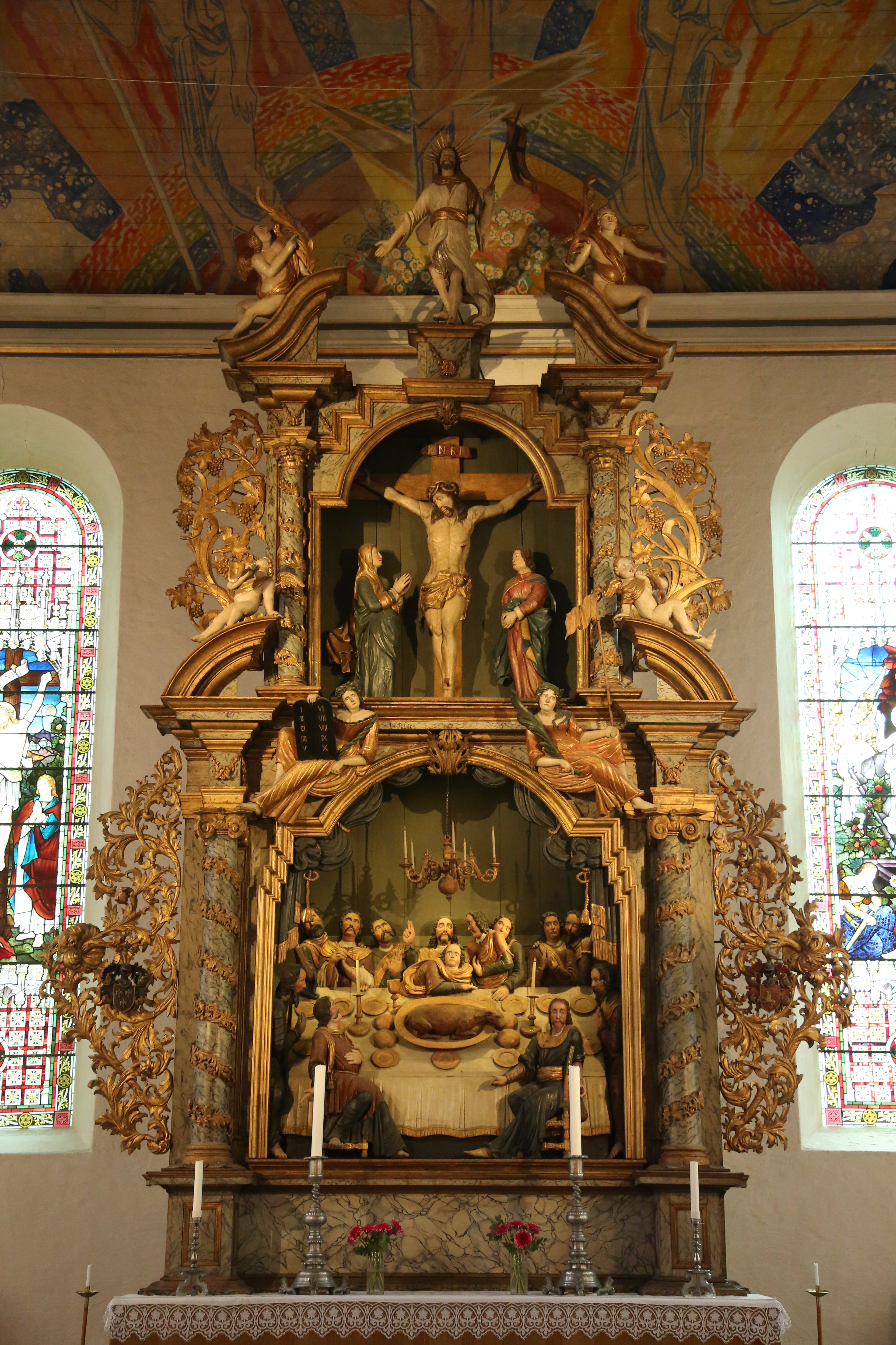 Altar of Oslo domkirke (Oslo Cathedral)